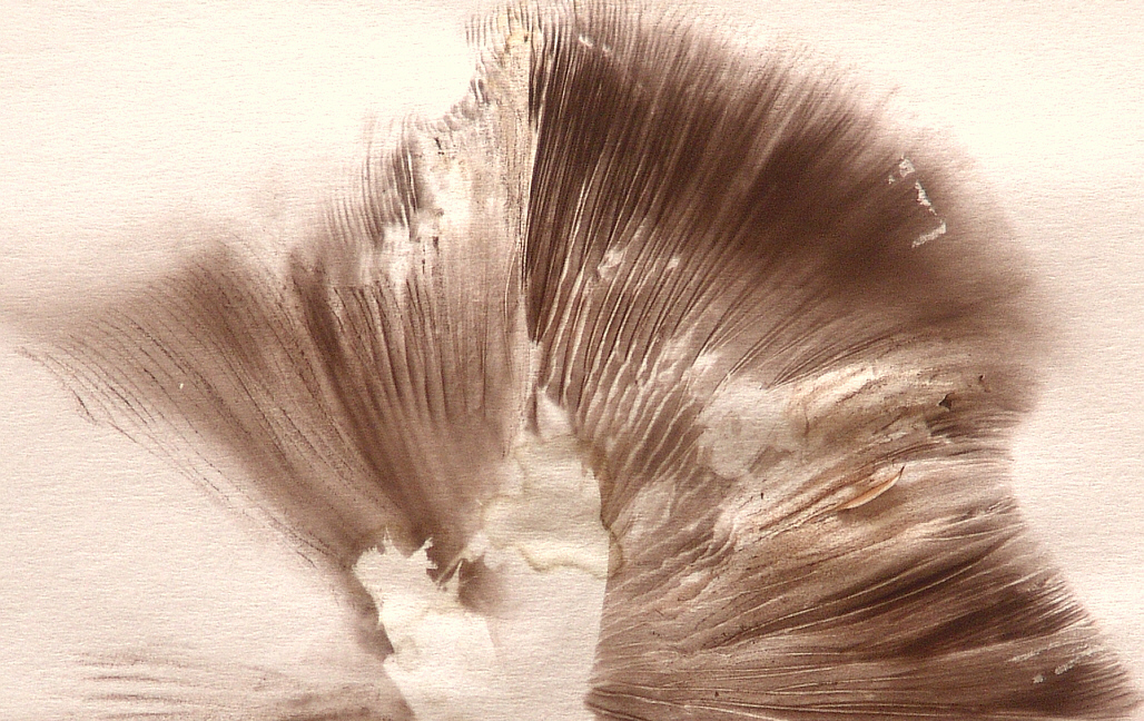 Pattern of spores from a lamella mushroom which was left on a piece of paper overnight.